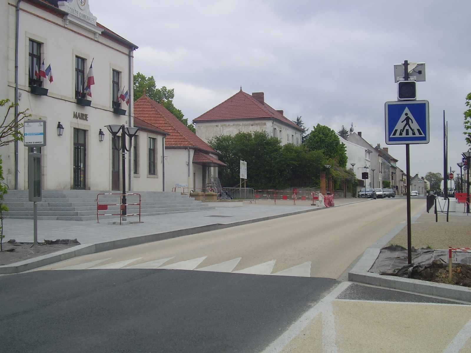 Long traffic calming (table) in Abrest, Allier, Auvergne, France. D 906 This picture is outdated. A tab sign was added below this sign: "RAPPEL PRIORITE AUX PIETONS" Error in camera settings: date=2010-05-12 in cam (see metadata) Pass = dual function. The presence of the sign "pedestrian crossing" is a mistake. Still the file is categorized in "Pedestrian crossings in France". Estimate length: 70 m / Estimate width: 6 m. Exact length and width may be measured at risk, due to high traffic